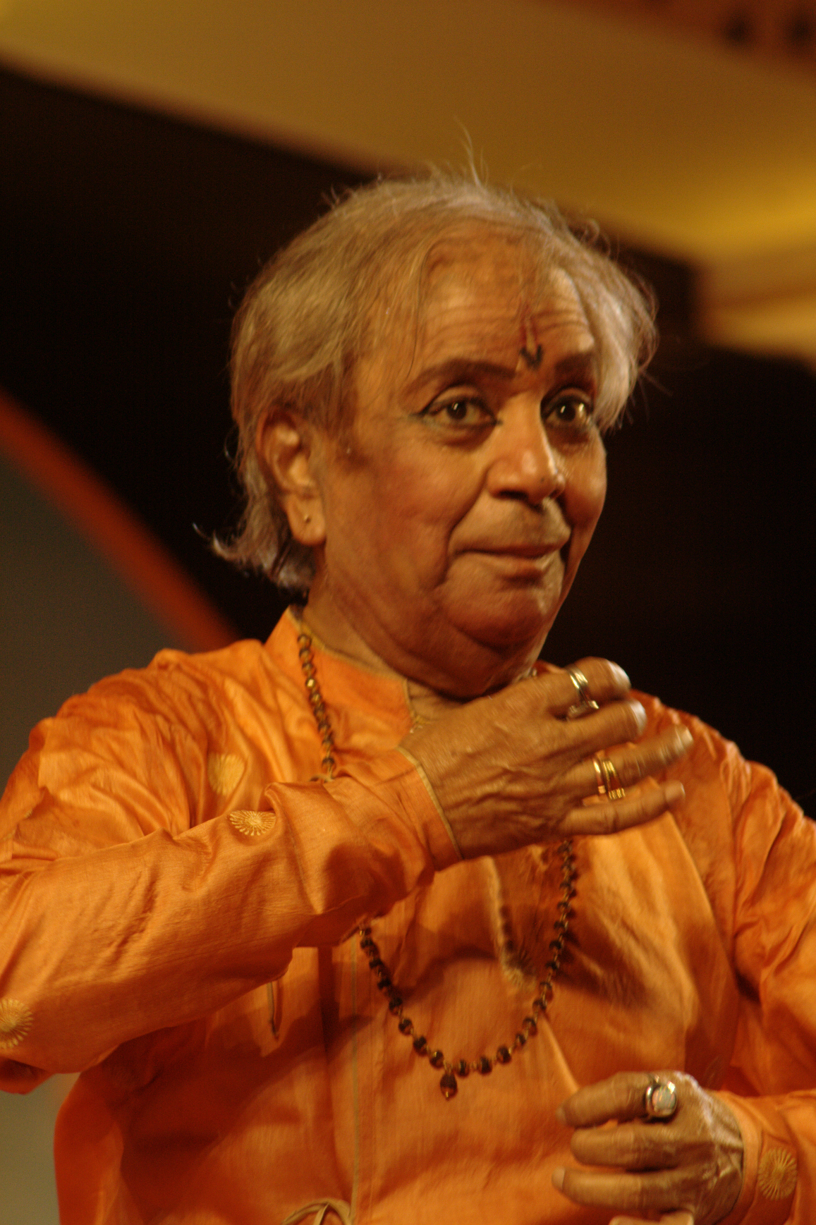 Pandit Birju Maharaj in a performance in Pune.